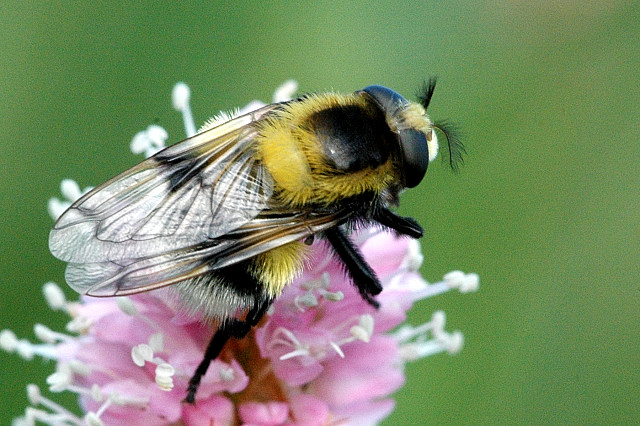 Volucella bombylans from Commanster, Belgian High Ardennes .